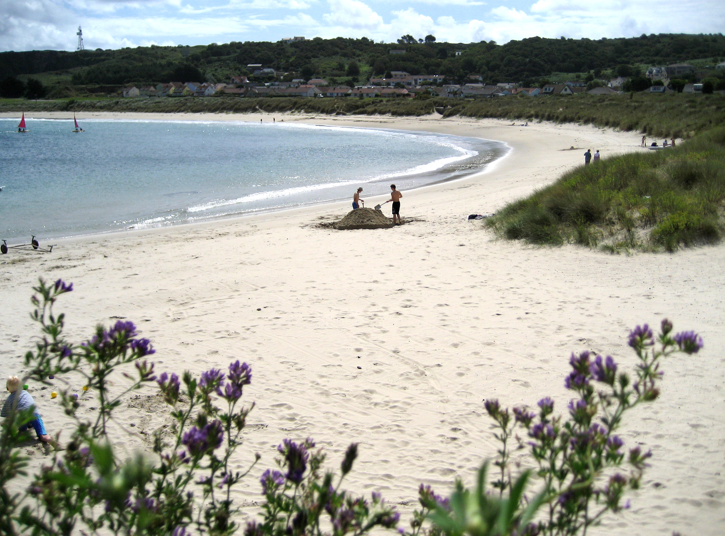 Braye Bay - Beach (Alderney)